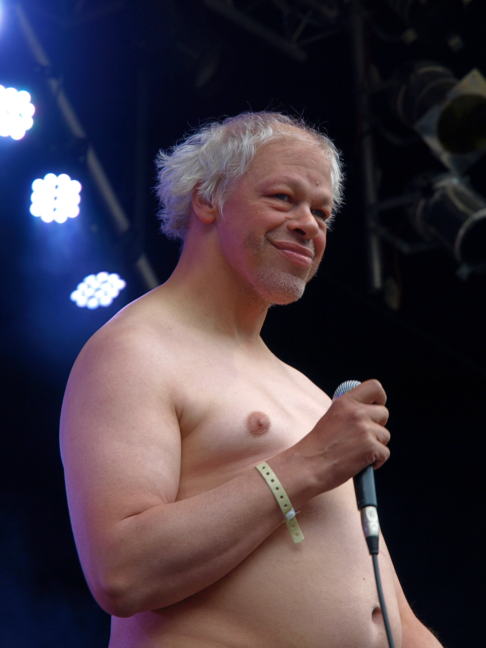 Finnish band Pertti Kurikan Nimipäivät at Provinssirock 2013